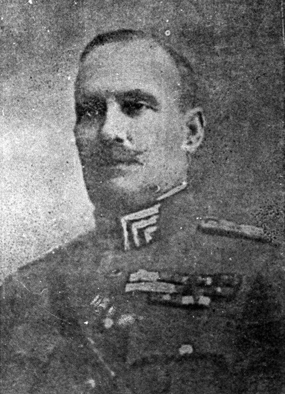 Grek revolutionary Vasilios Panusopulos